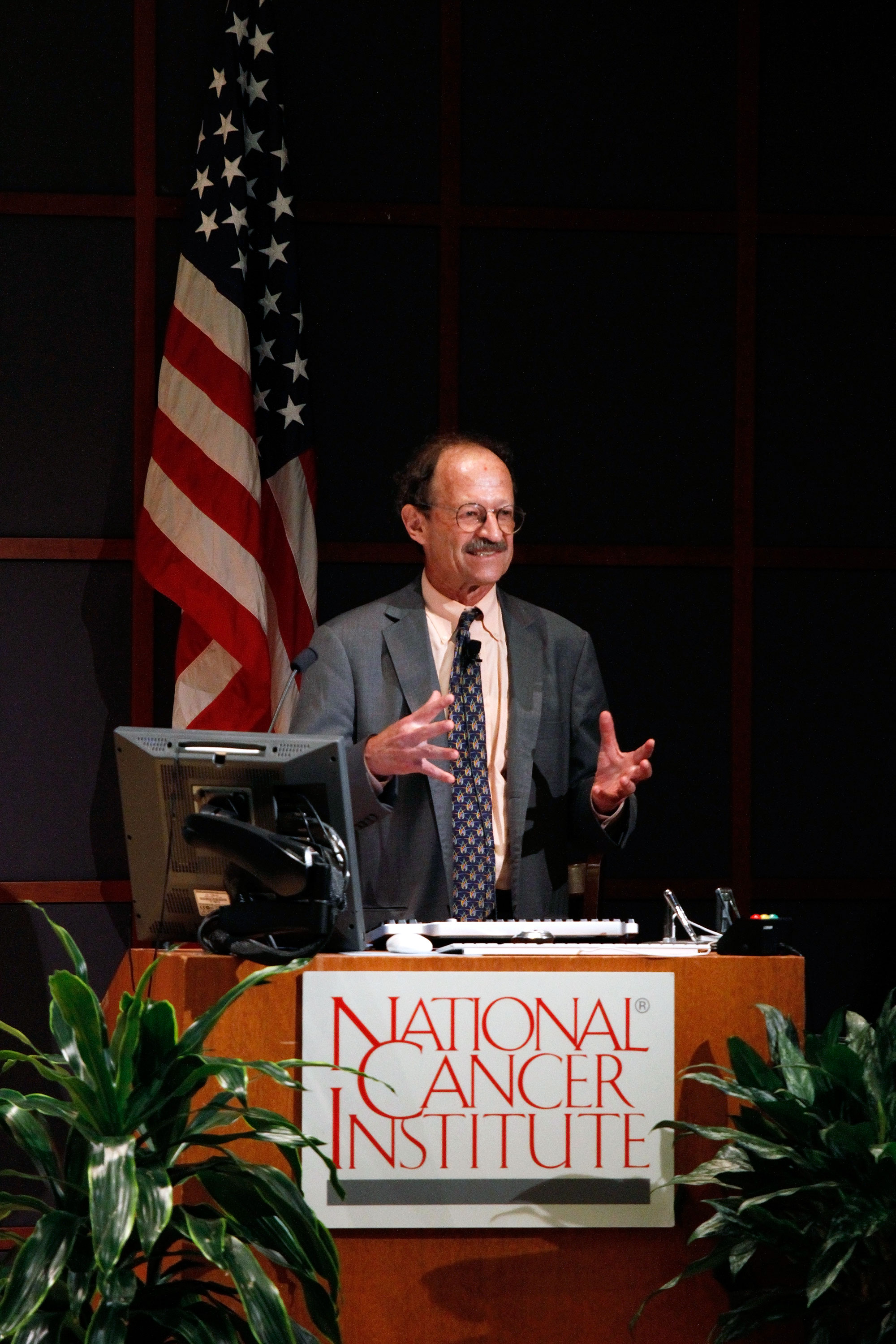 Title Town Hall Meeting - 2010 Description Harold Varmus, Director, National Cancer Institute, addressing staff at the 2010 NCI Town Hall Meeting. Topics/Categories Historical, Events National Cancer Institute, Directors Type Color, Photo Source National Cancer Institute